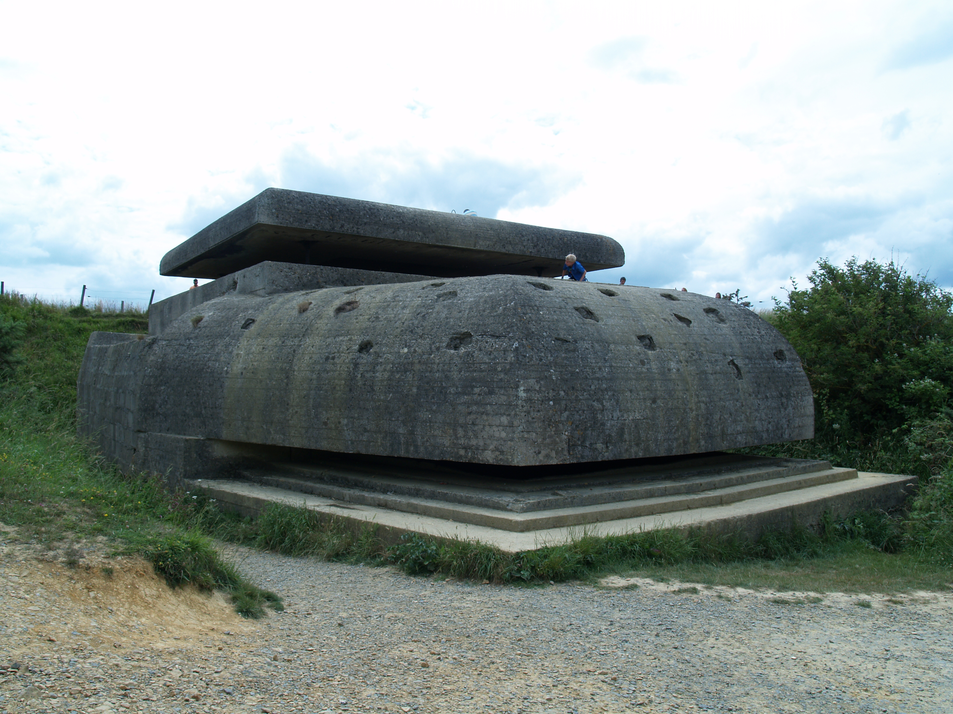 Longues-sur-Mer Battery, Command Post